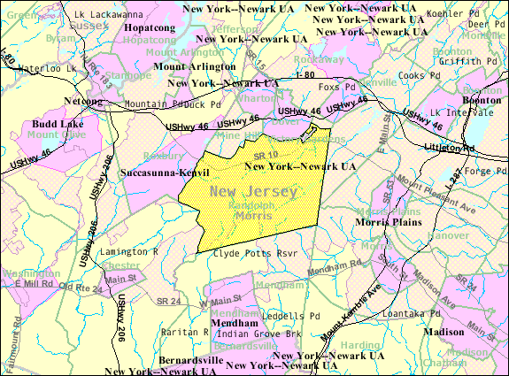 U.S. Census Bureau map of Randolph